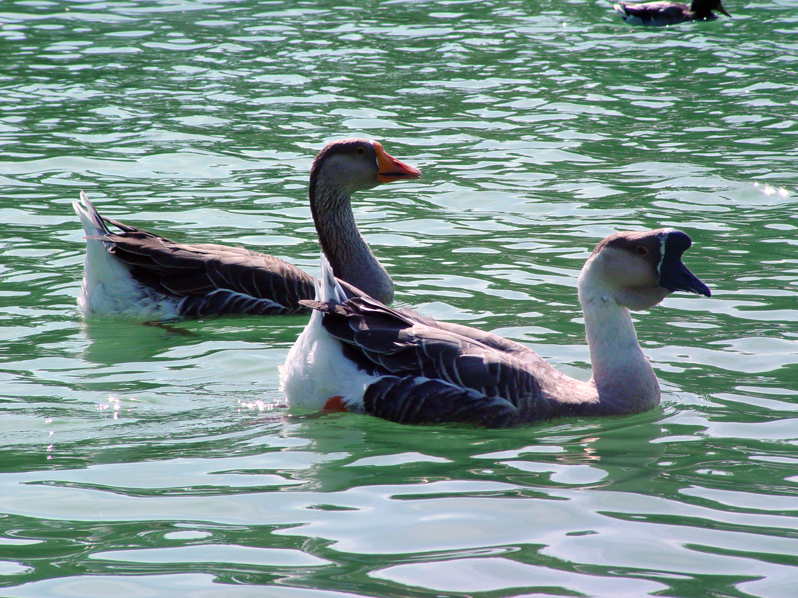 Two domestic Chinese geese (Anser cygnoides) swimming. Male is in foreground, female behind.